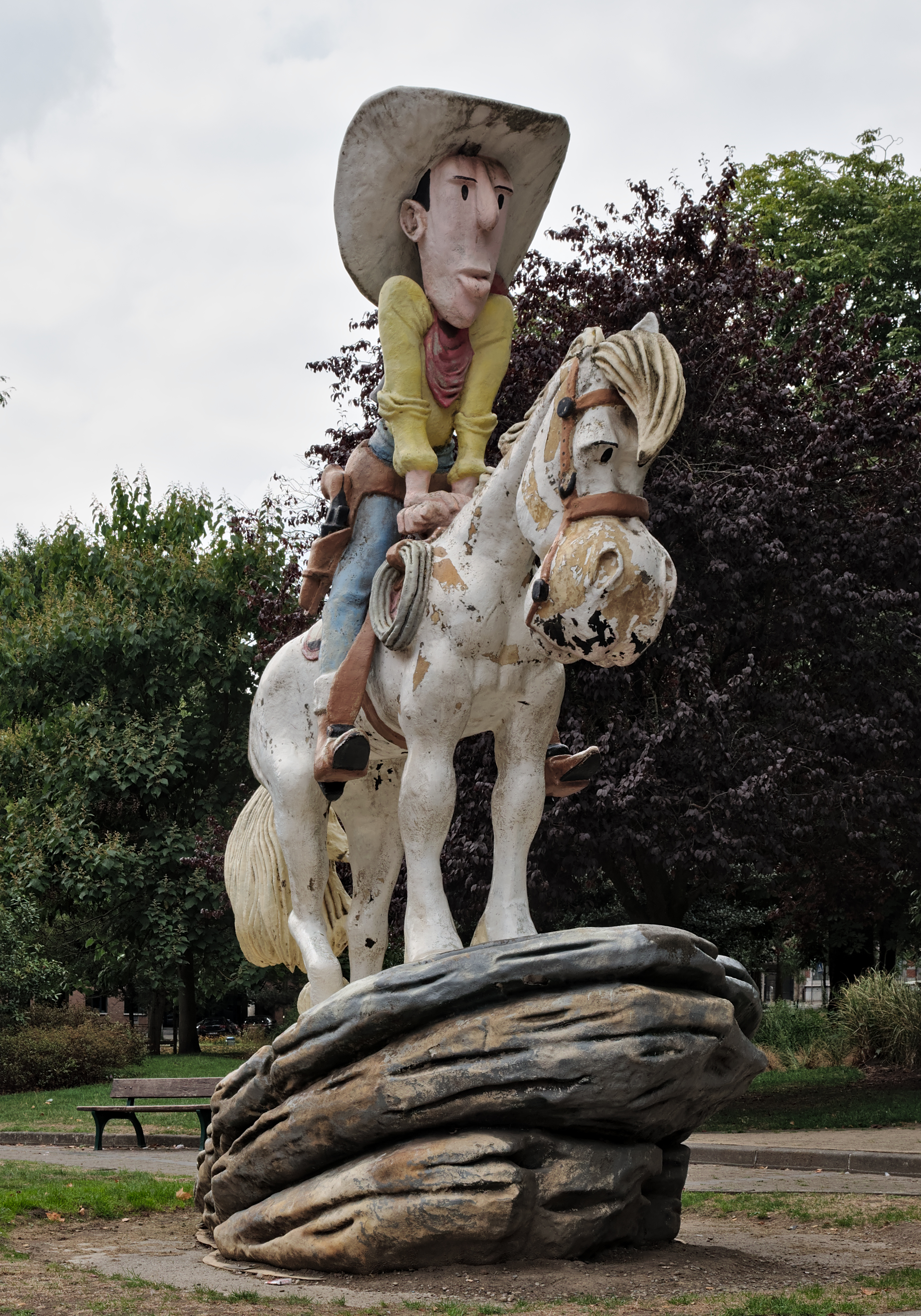 Lucky Luke statue in parc Reine Astrid, Charleroi This photo of movable heritage has been taken in the Walloon Region